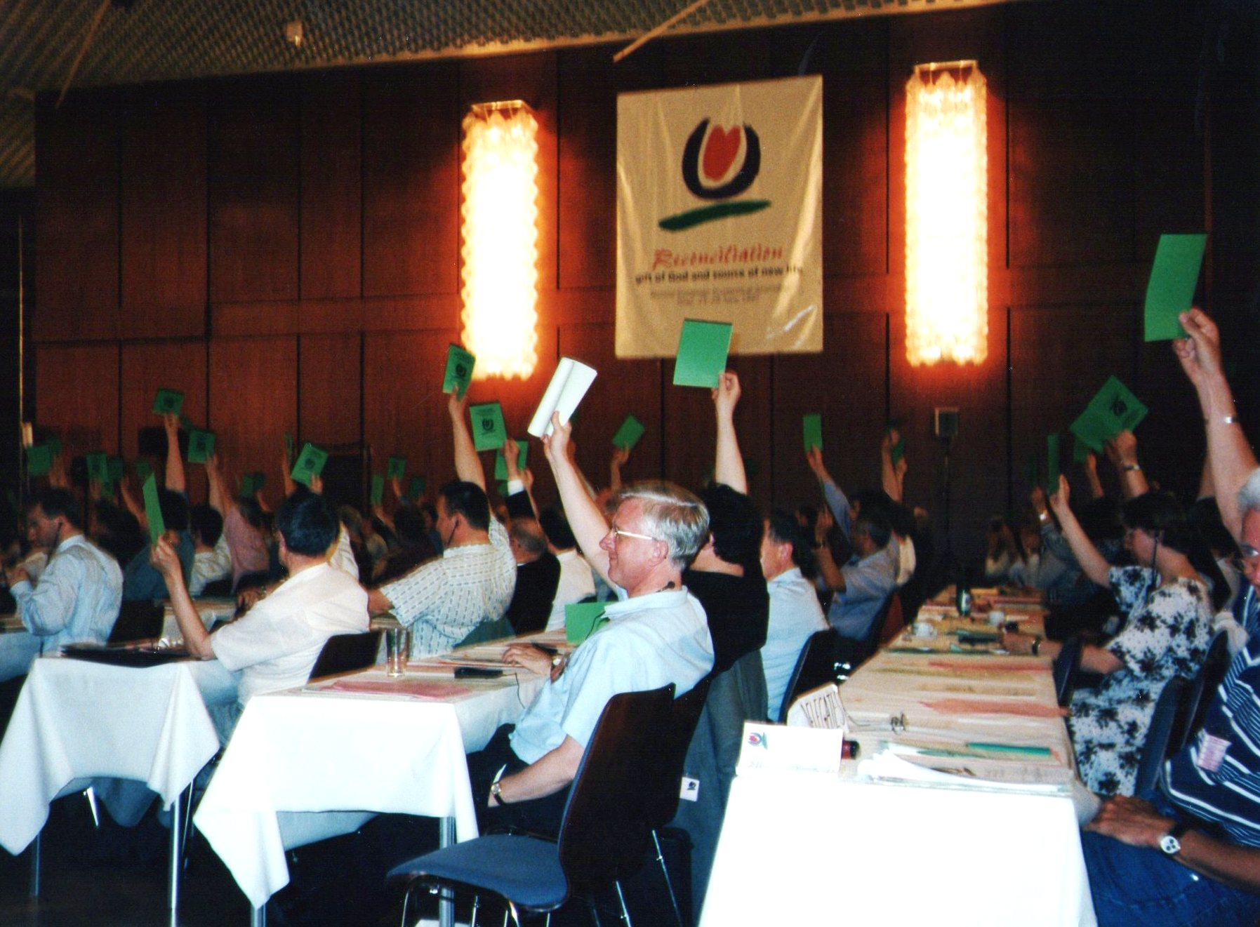 Delegates voting at a session of the Second European Ecumenical Assembly in Graz, Austria